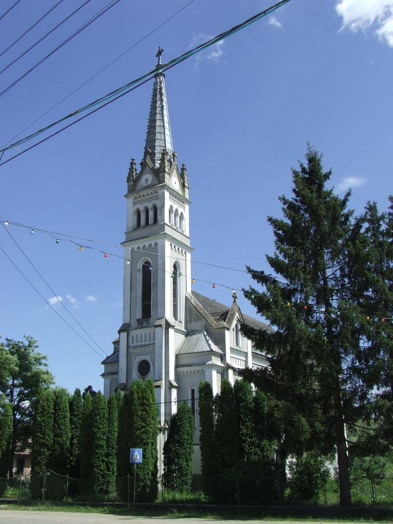 Catholic Church in Bonţida, Cluj County, Romania